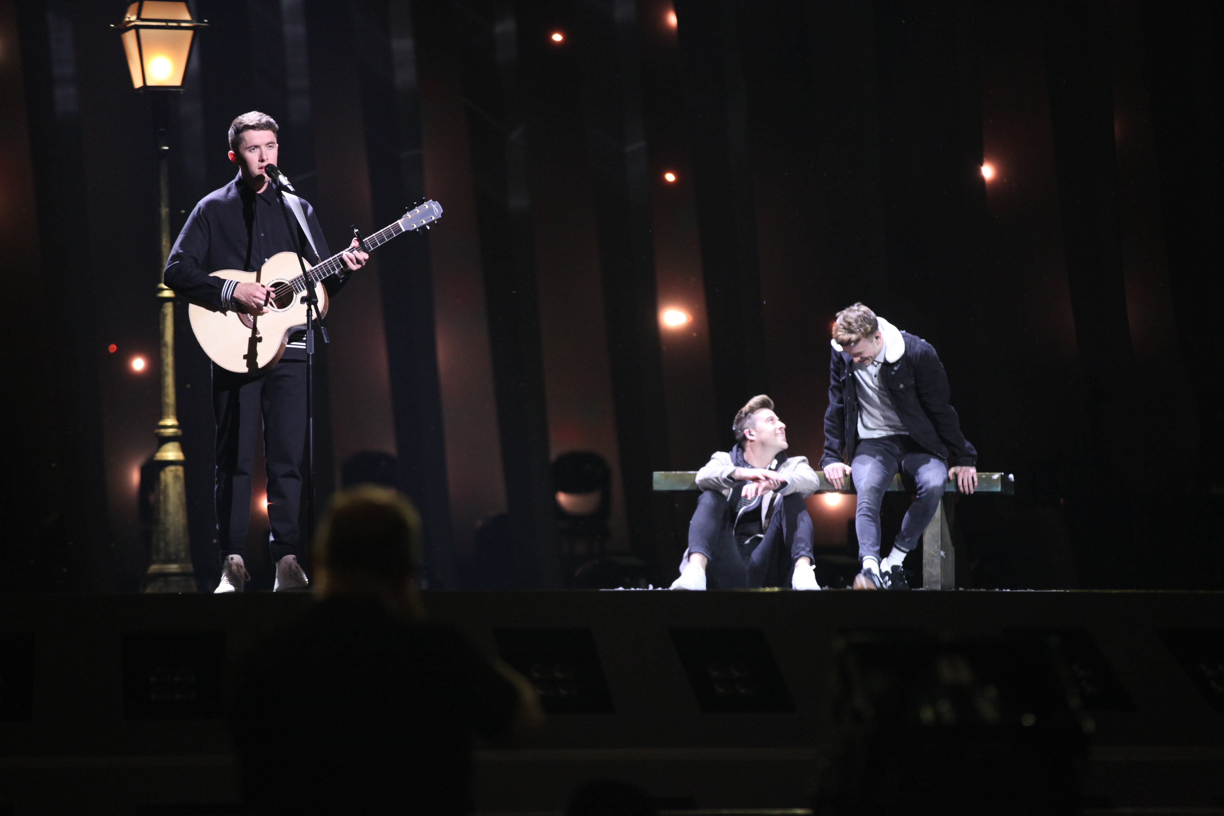 Ryan O’Shaughnessy representing Ireland with the song "Together" during a rehearsal before the grand final of the Eurovision Song Contest 2018 in Lisbon.